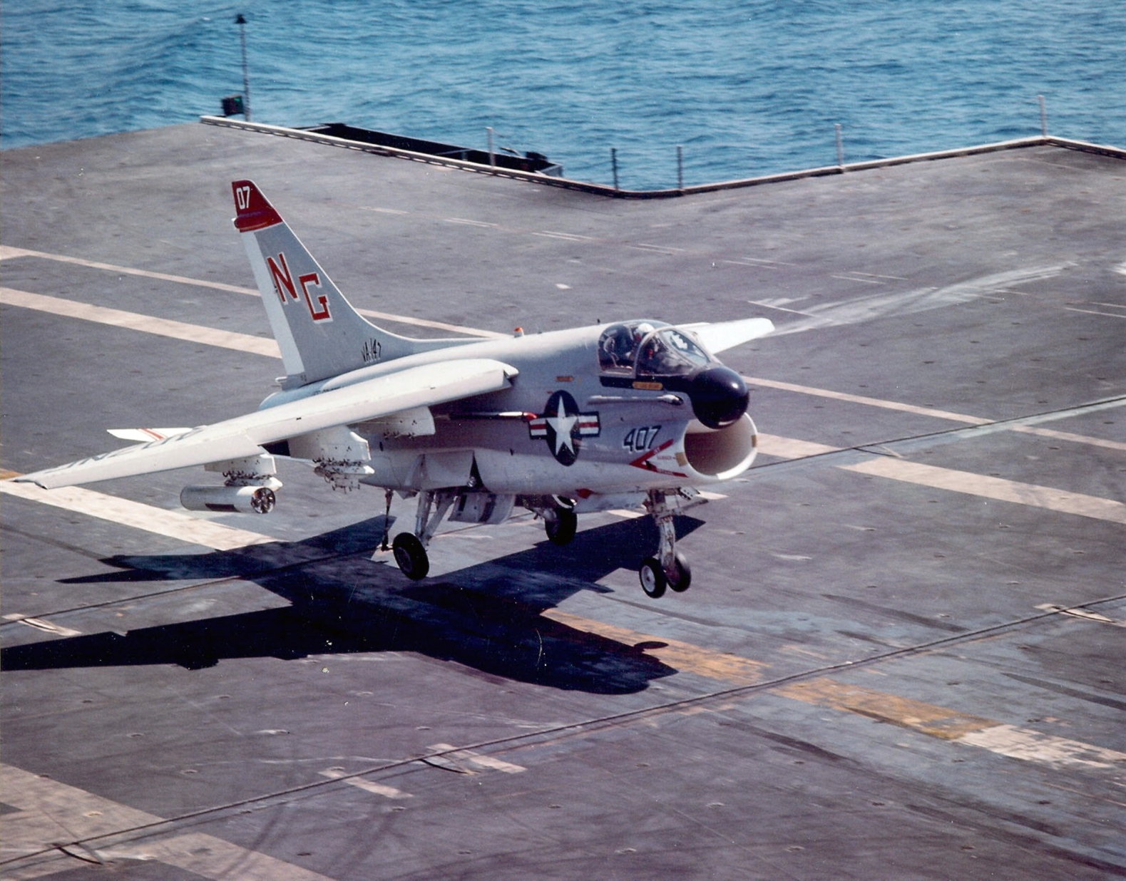 A U.S. Navy Ling-Temco-Vought A-7E Corsair II from Attack Squadron VA-147 "Argonauts" landing on an aircraft carrier in the mid-1970s. VA-147 was assigned to Carrier Air Wing 9 on the aircraft carrier USS Constellation (CV-64) from 1971 to 1982. Note that the traditional sword-emblem is missing on the tail plane.